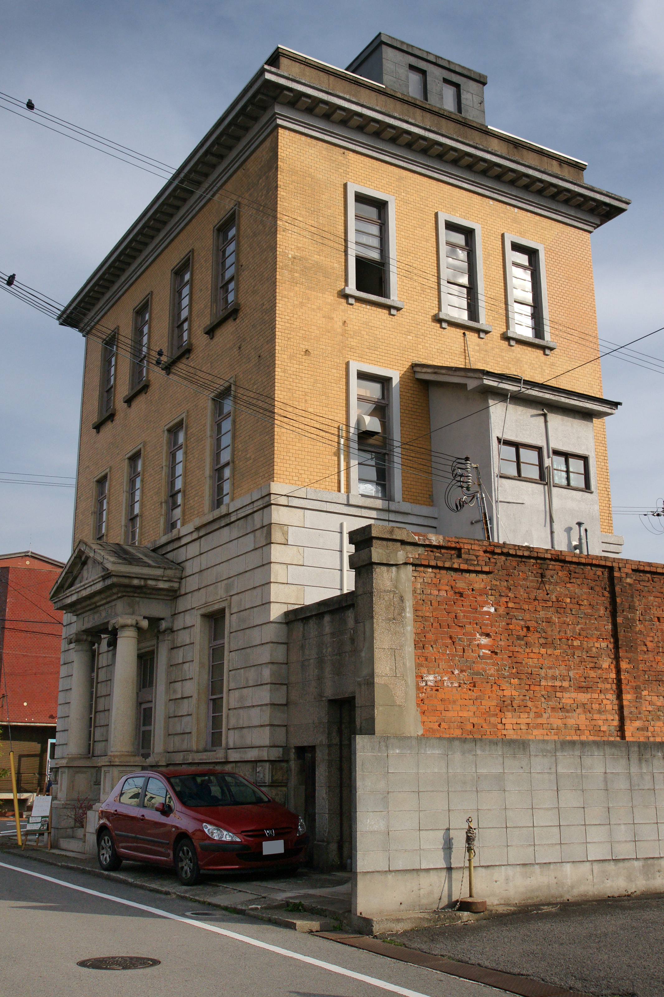 Old Nishimotogumi headquarters building, Wakayama, Wakayama prefecture, Japan